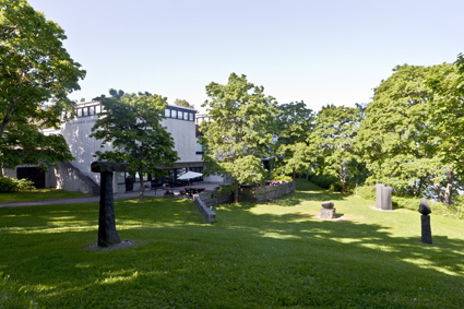 Sara Hildén Art Museum